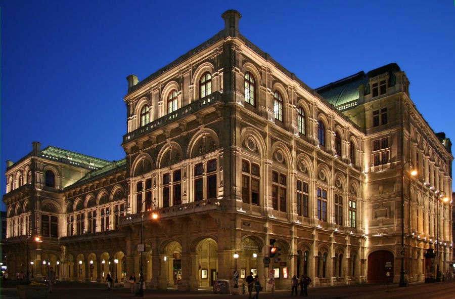 Austria, Vienna, Vienna State Opera